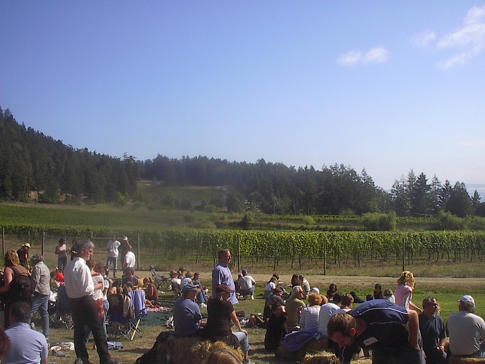 Saturna Vineyard[1].